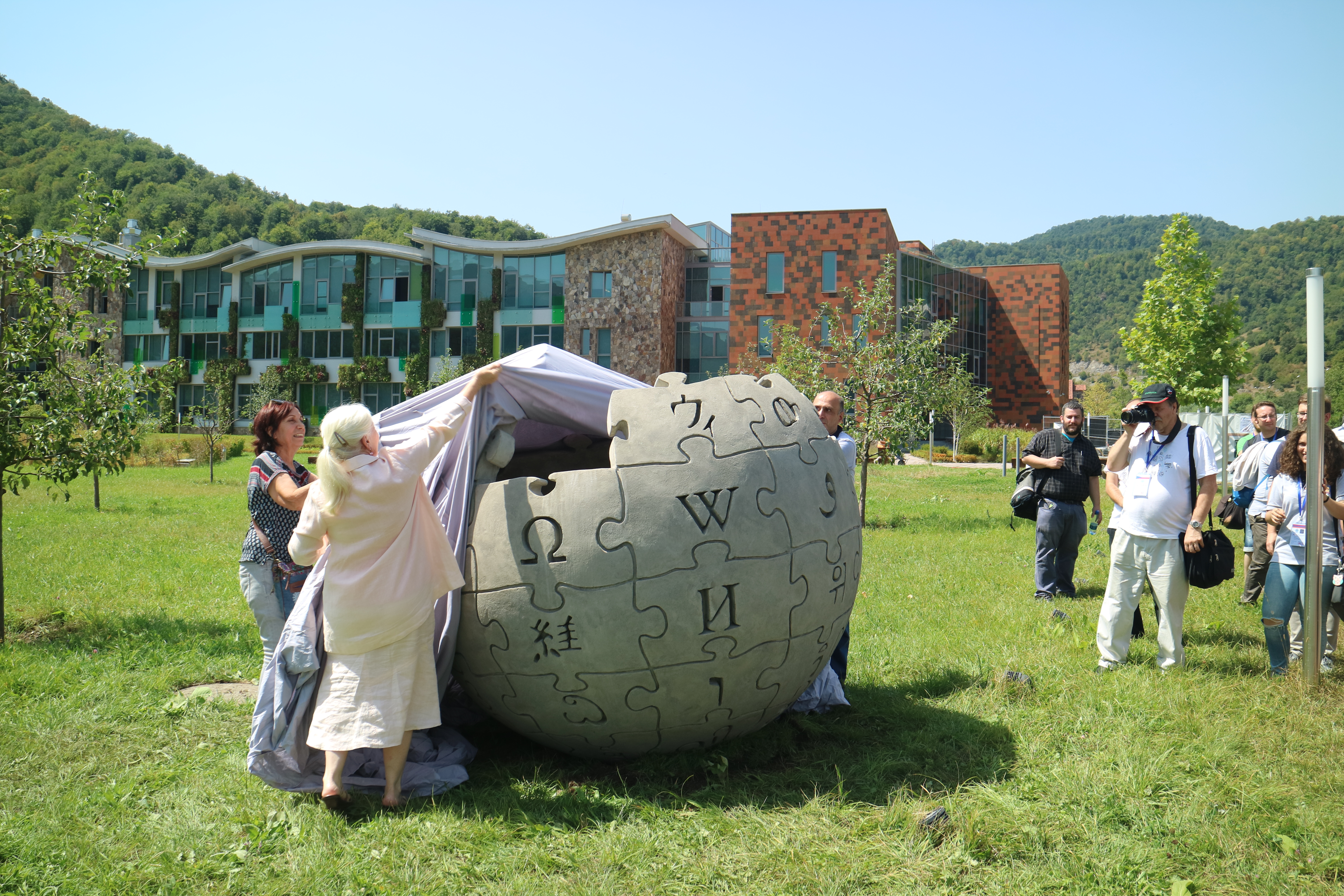 Wikimedia CEE Meeting 2016, Dilijan, Armenia – Wikipedia monument